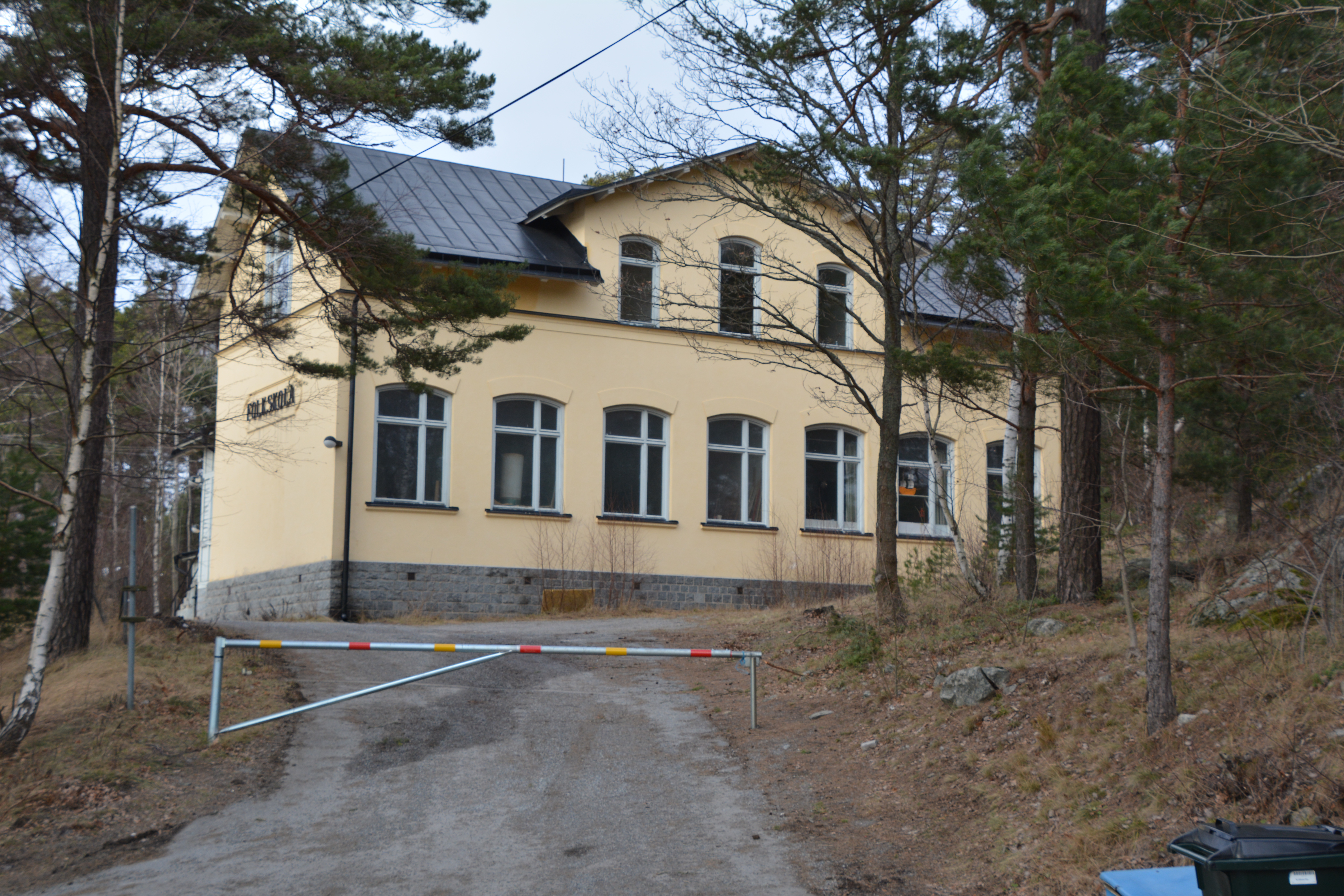 Lövsta skola